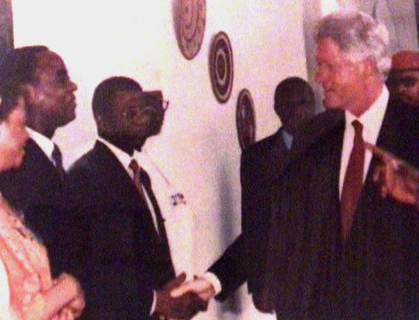 Presidential Adviser, Onyema Ugochukwu with President of the United States, Bill Clinton.